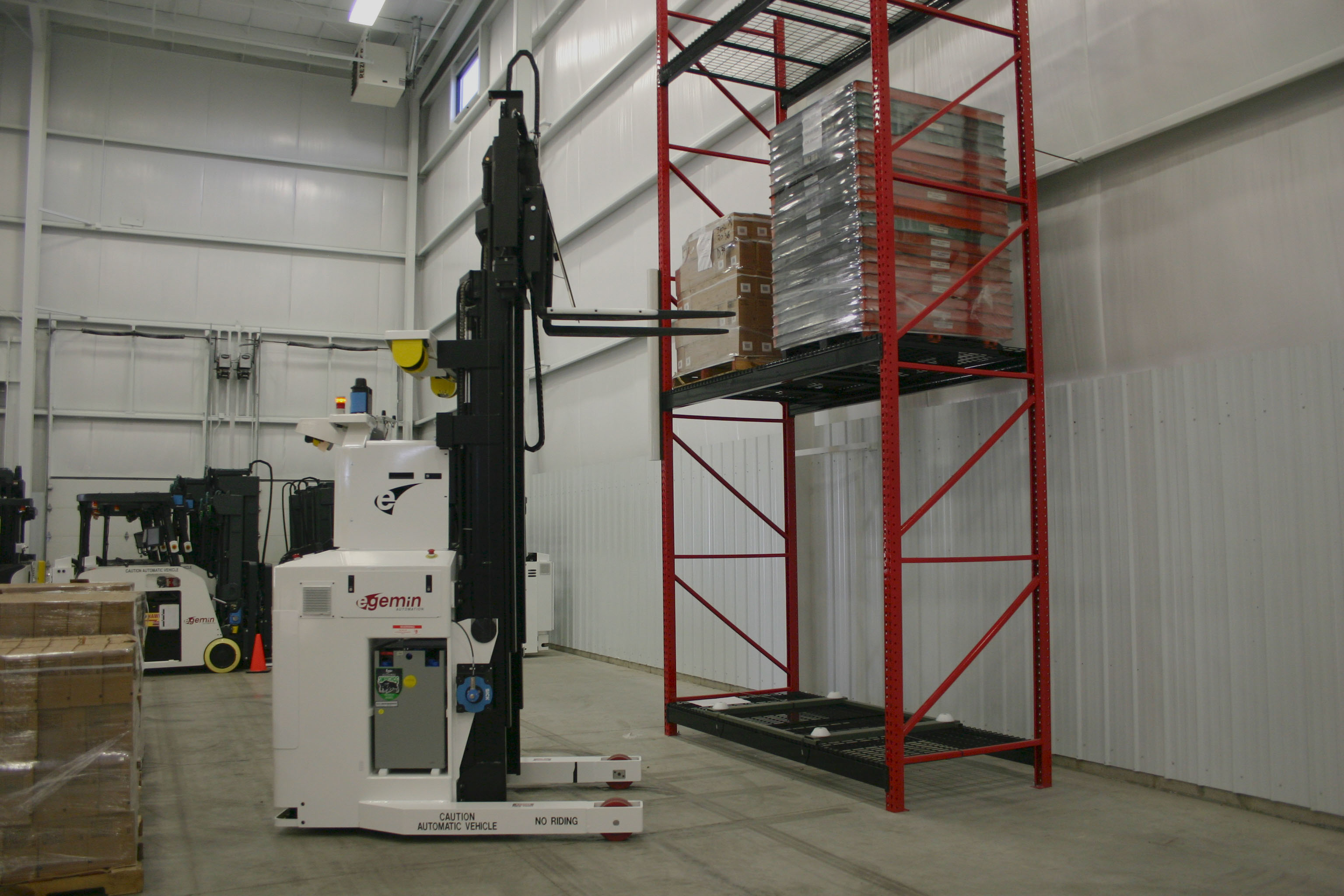 Forklift AGV picking load from rack (fully automated)